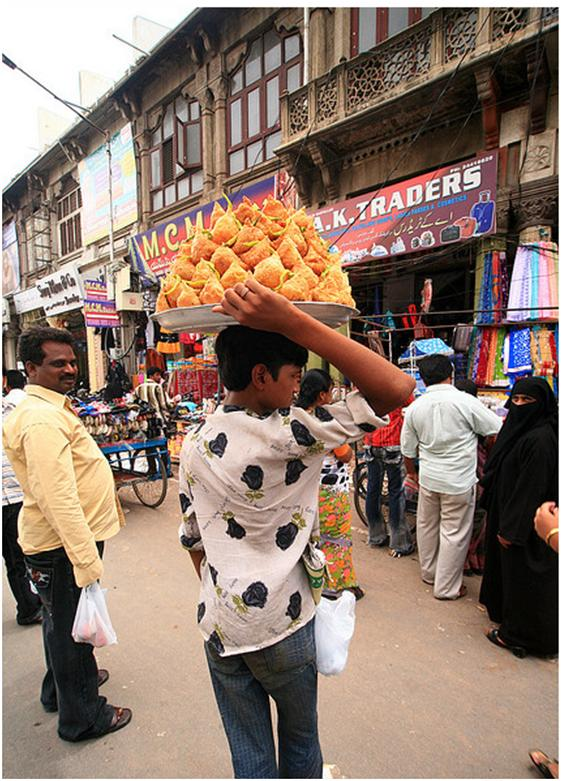 Samosa (Indian Snacks) vendor, in the Bazaar's of Medina Circle, Hyderabad, India.